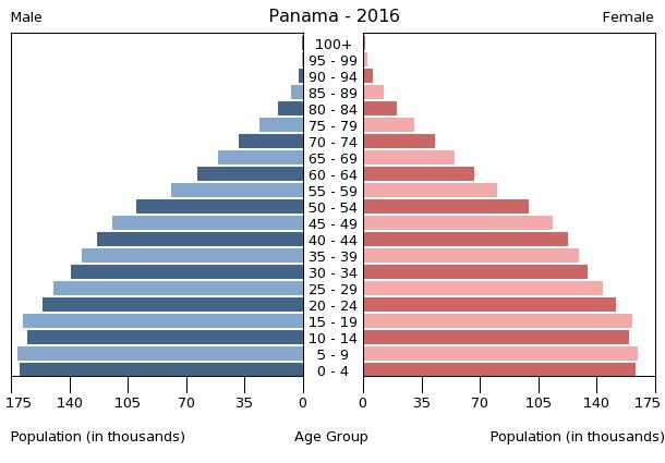 The population pyramid of Panama illustrates the age and sex structure of population and may provide insights about political and social stability, as well as economic development. The population is distributed along the horizontal axis, with males shown on the left and females on the right. The male and female populations are broken down into 5-year age groups represented as horizontal bars along the vertical axis, with the youngest age groups at the bottom and the oldest at the top. The shape of the population pyramid gradually evolves over time based on fertility, mortality, and international migration trends.